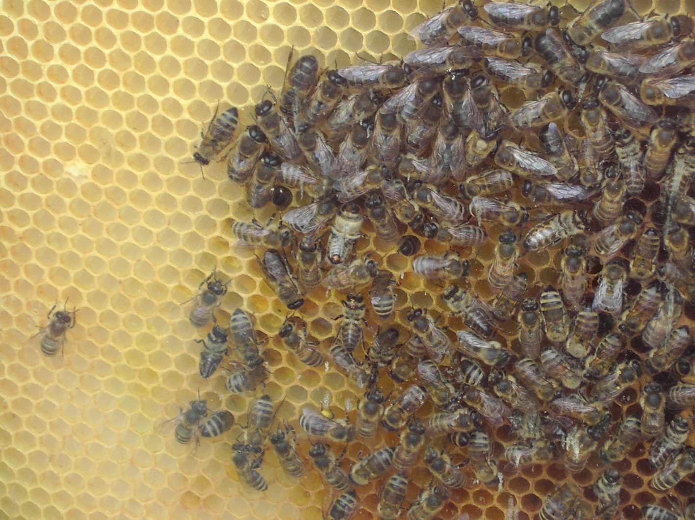 Bees and honeycombs, Glentleiten, South Bavaria, photo by Alexander Z., 2005-08-28